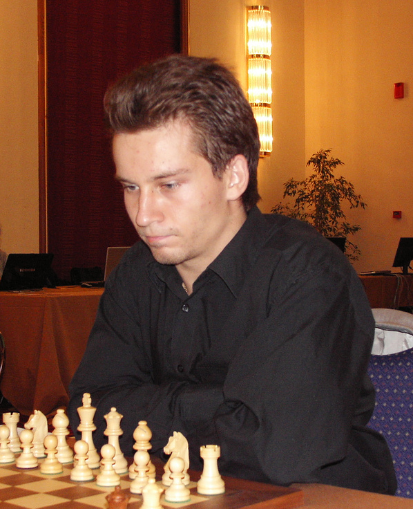 GM Andrei Volokitin (Ukraine), Heraklion 2007